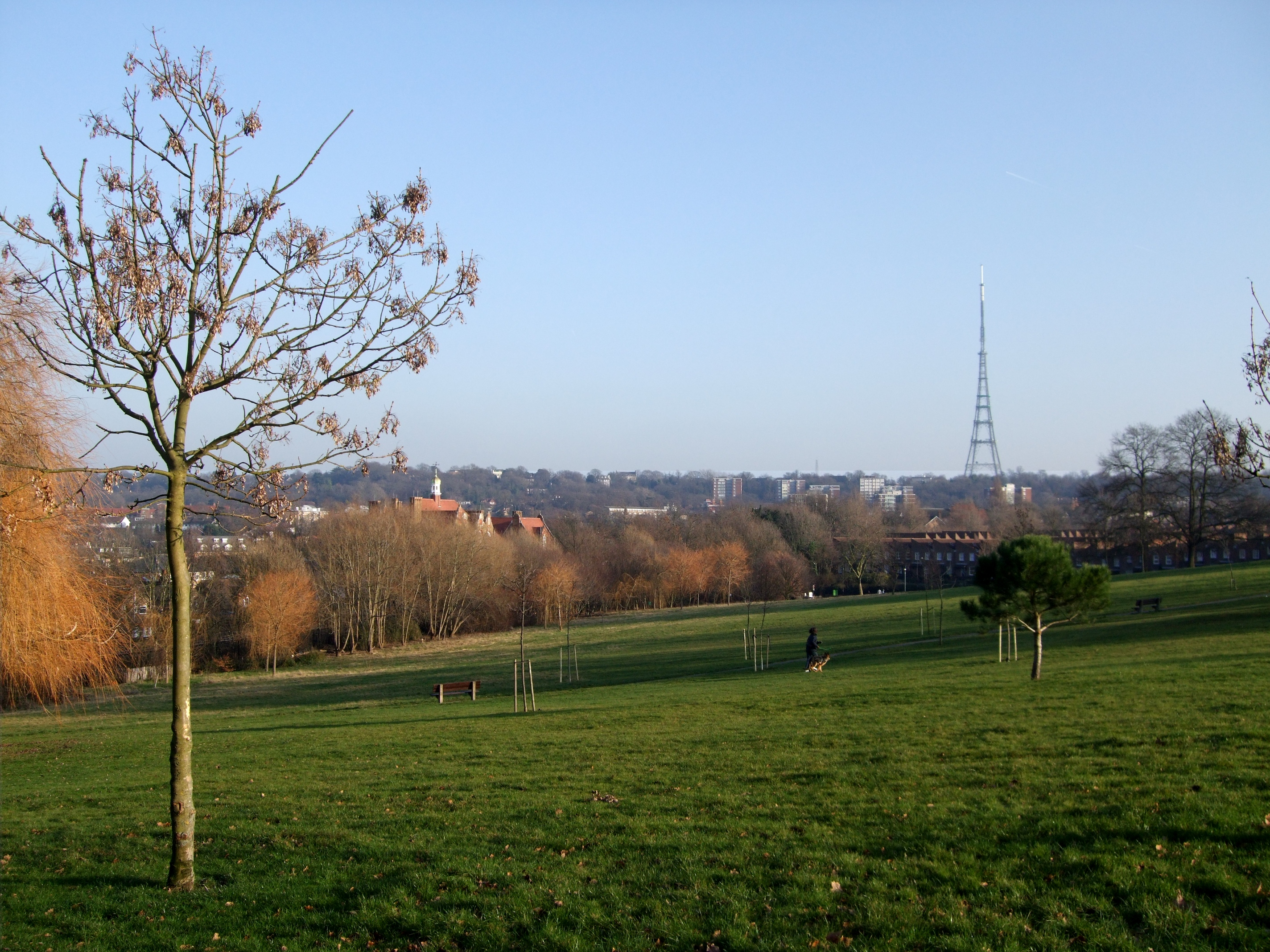 A pretty park with views towards Crystal Palace. Photo taken December 2008. Owner: London Borough of Lambeth.